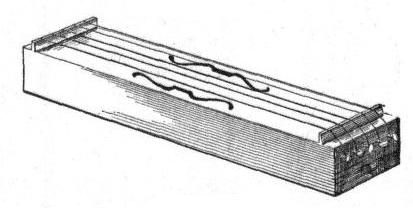 Aeolian harp (or wind harp), a musical instrument that is "played" by the wind.